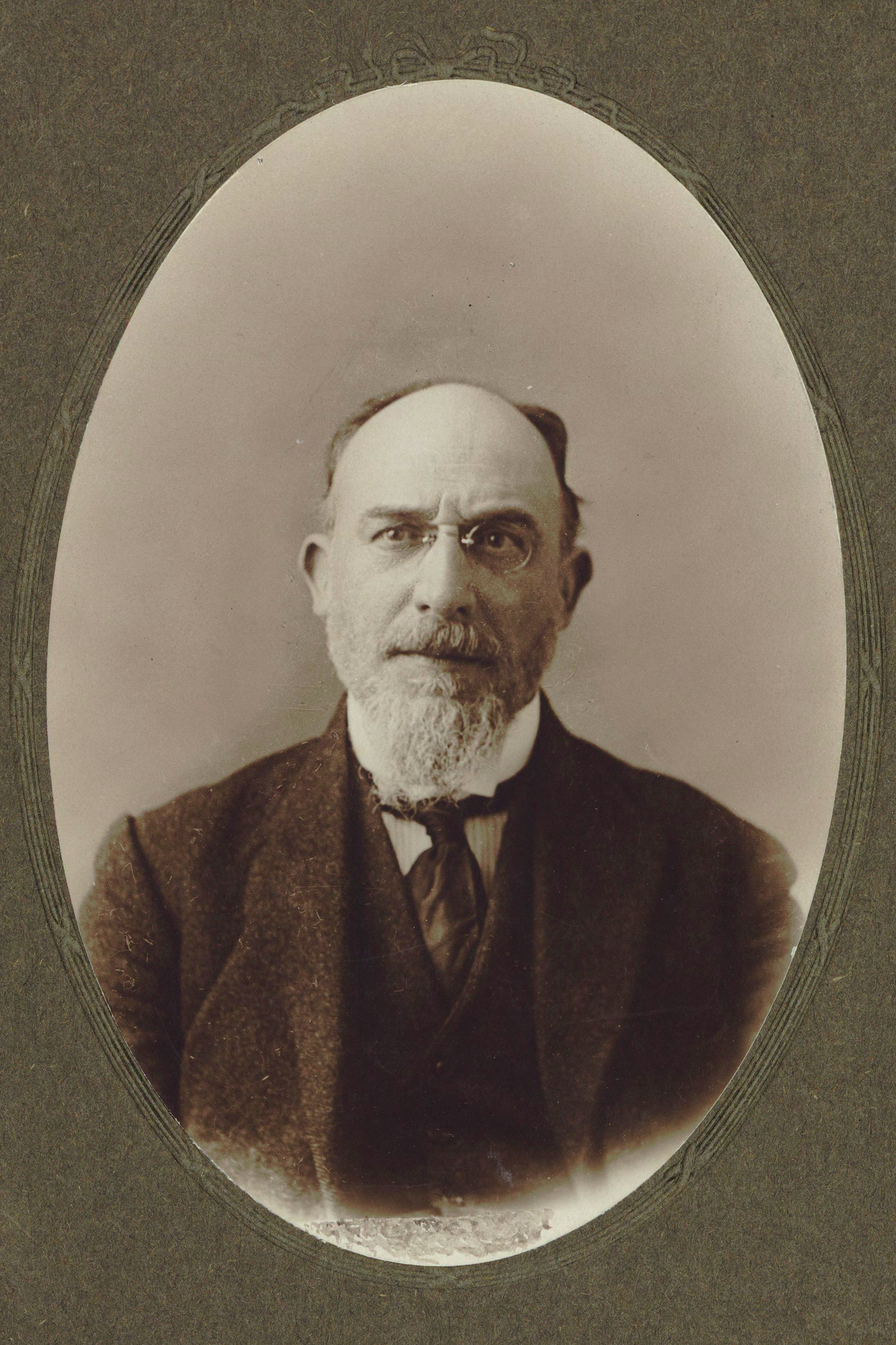 Erik Satie (1866-1925)